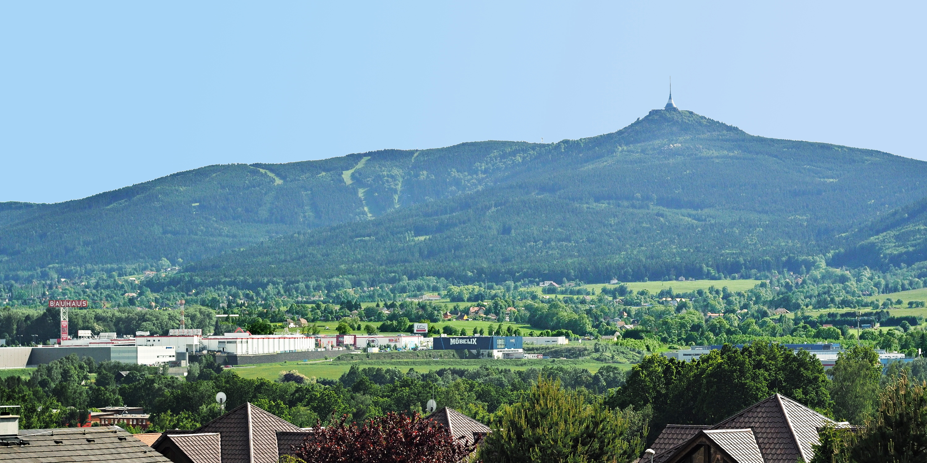 View towards Liberec and the Ještěd mountain from the north-east